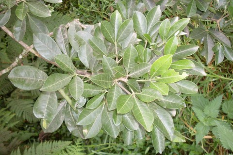 Melicope micrococca, growing on private property near Watagans National Park, Australia